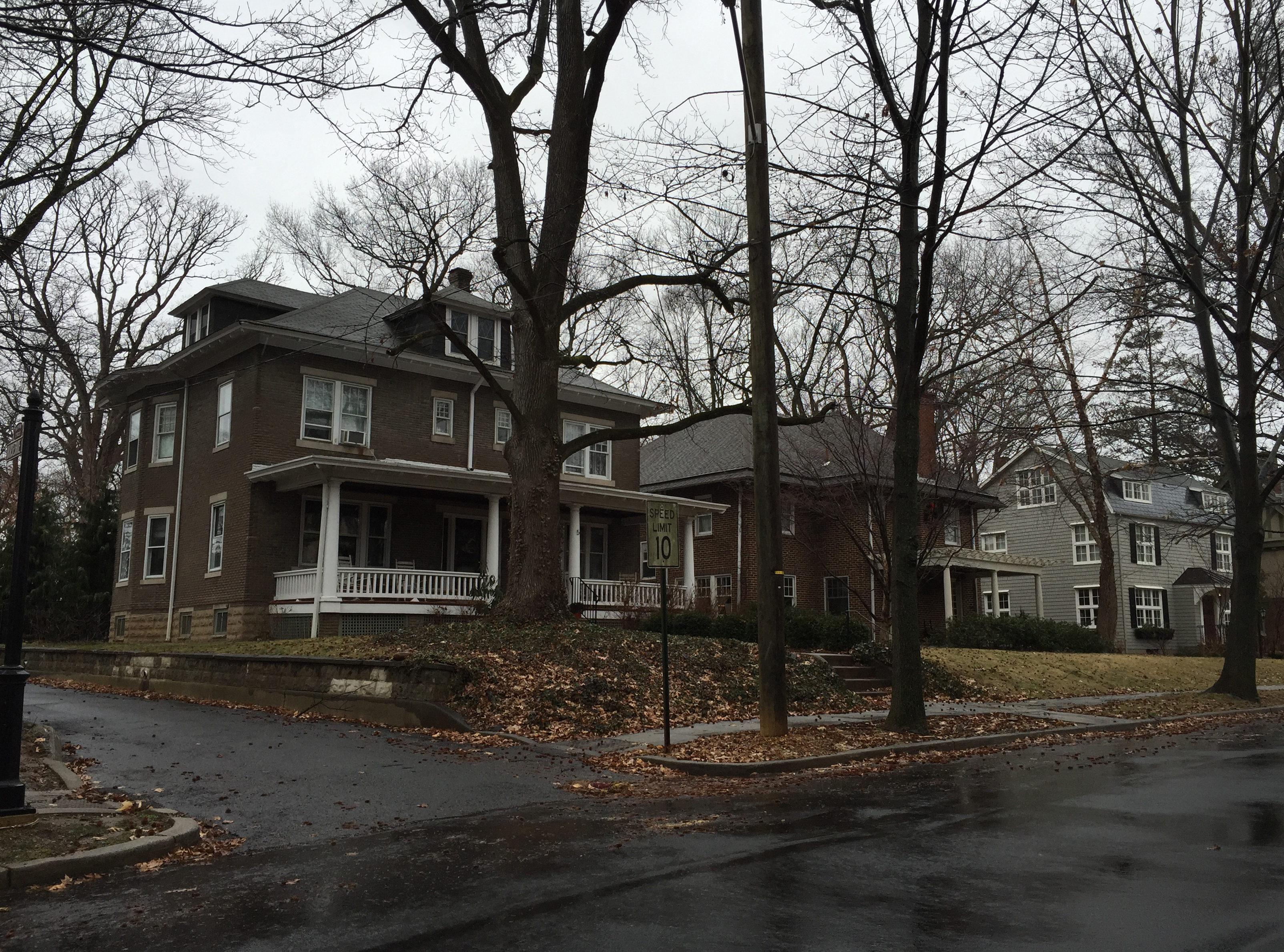 Houses along Belmont Circle in the Cadwaladar Heights section of Trenton, New Jersey